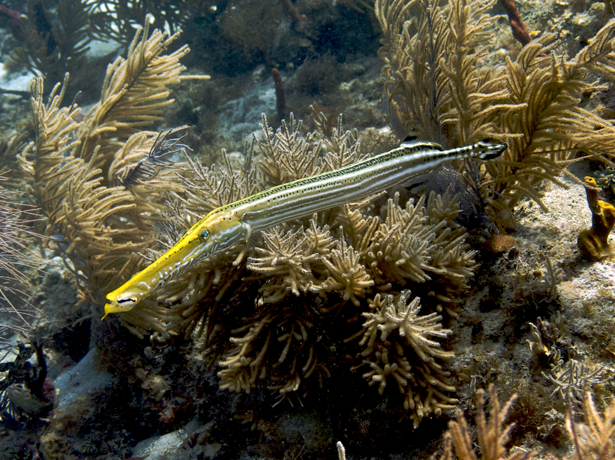 Aulostomus maculatus (Trumpetfish - yellow head variation)